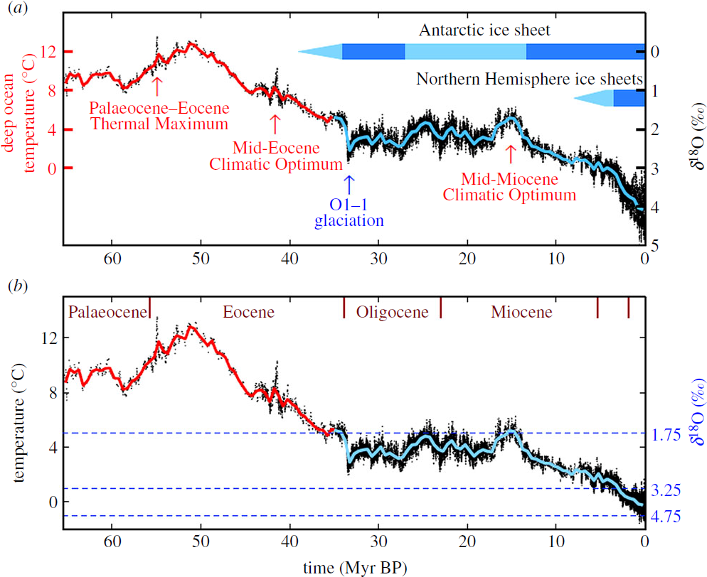 Climate sensitivity sea level and atmospheric carbon dioxide Hansen et al 2013[1]